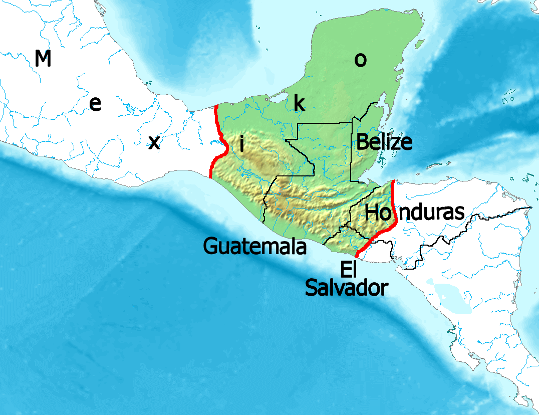 Settlement area of ancient Maya in North and Central America.